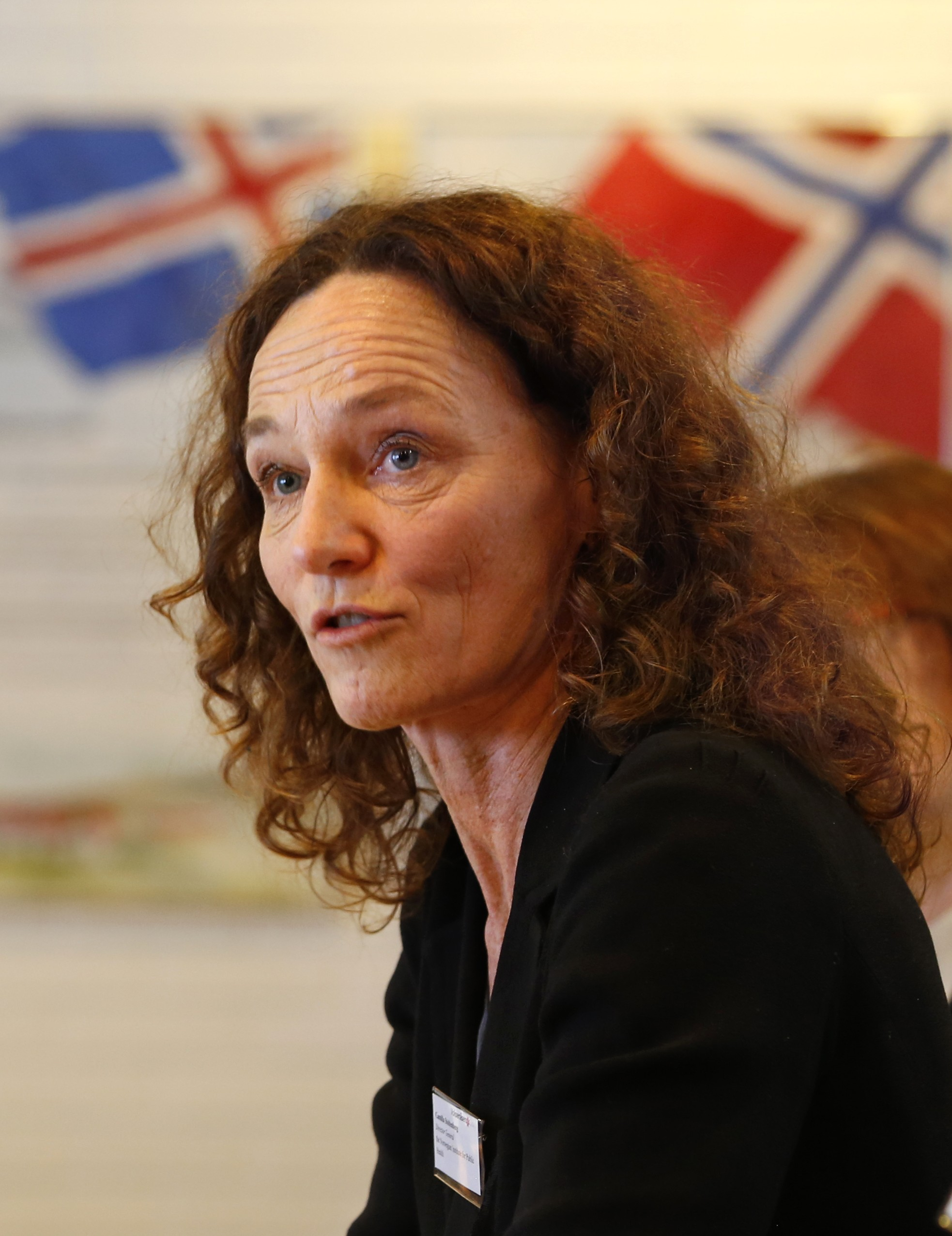 NordForsk -The future Nordic Co-operation on Health conference Voksenåsen Oslo, February 4 2015: Camilla Stoltenberg, Director General of the Norwegian Institute of Public Health, Norway - Professor, MD Photo: Terje Heiestad